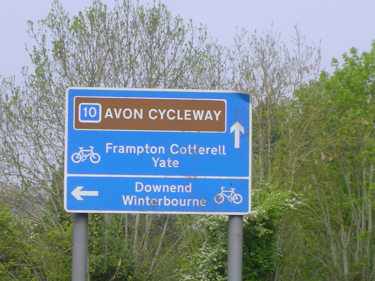 Avon Cycleway Sign located near the Coalpit Heath Cricket Ground